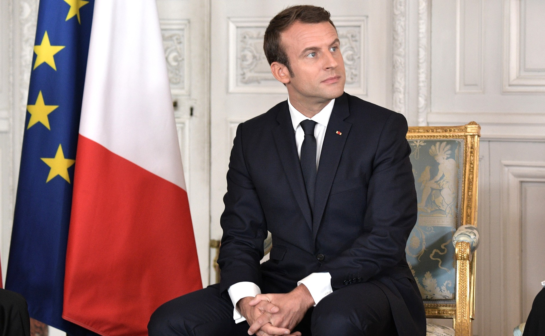 The French president Emmanuel Macron, during a meeting with the Russian president Vladimir Putin (Versailles).